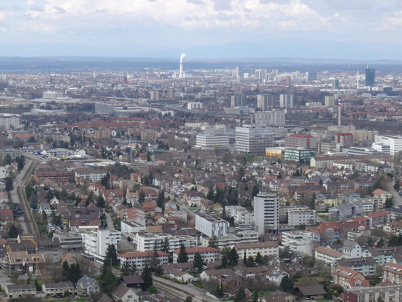 Basel - view of the city from Wartenberg hill